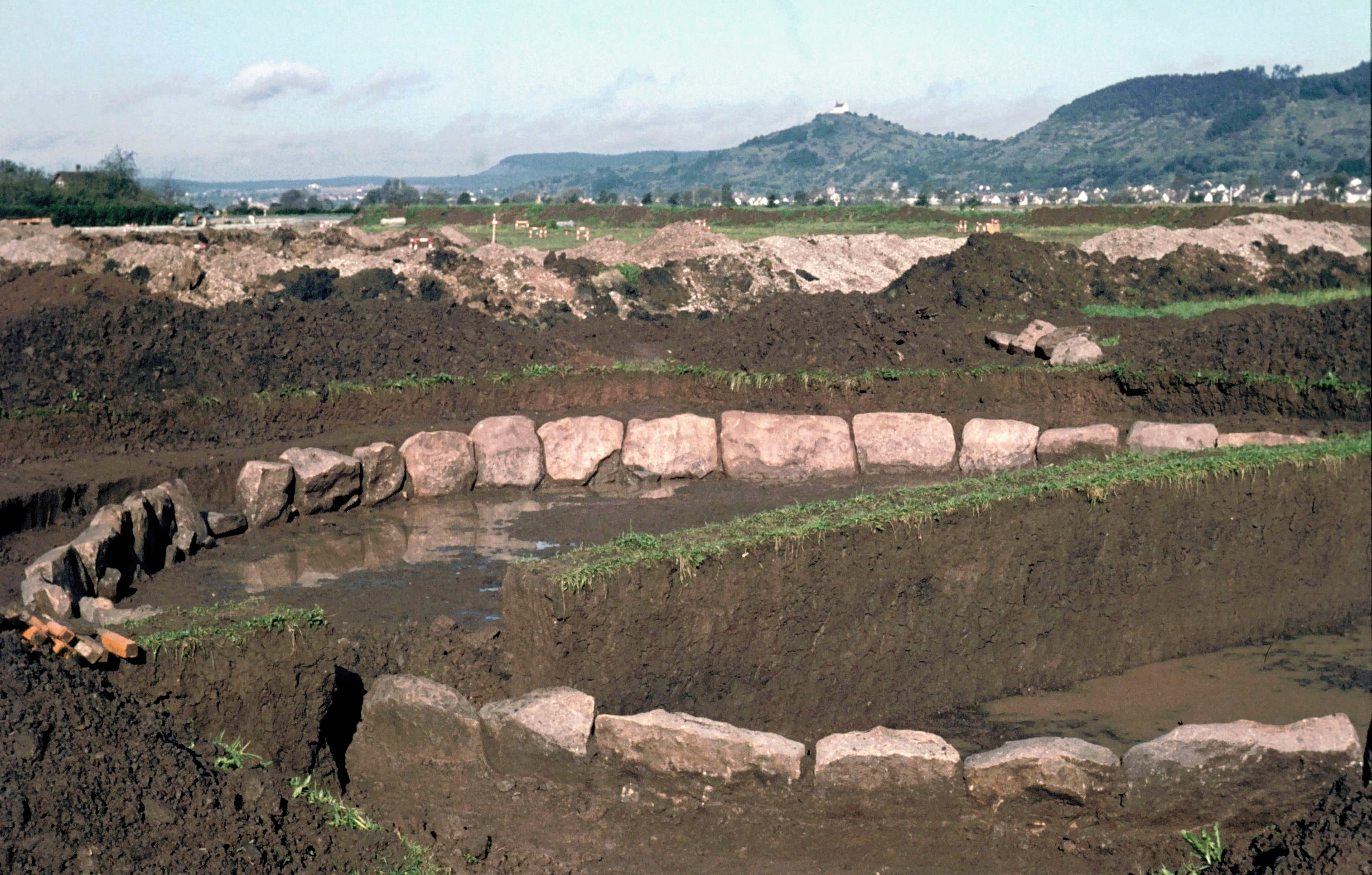 Opened archaeological site of Celtic graves at Kilchberg-Tübingen, picture taken on September 13th, 1968